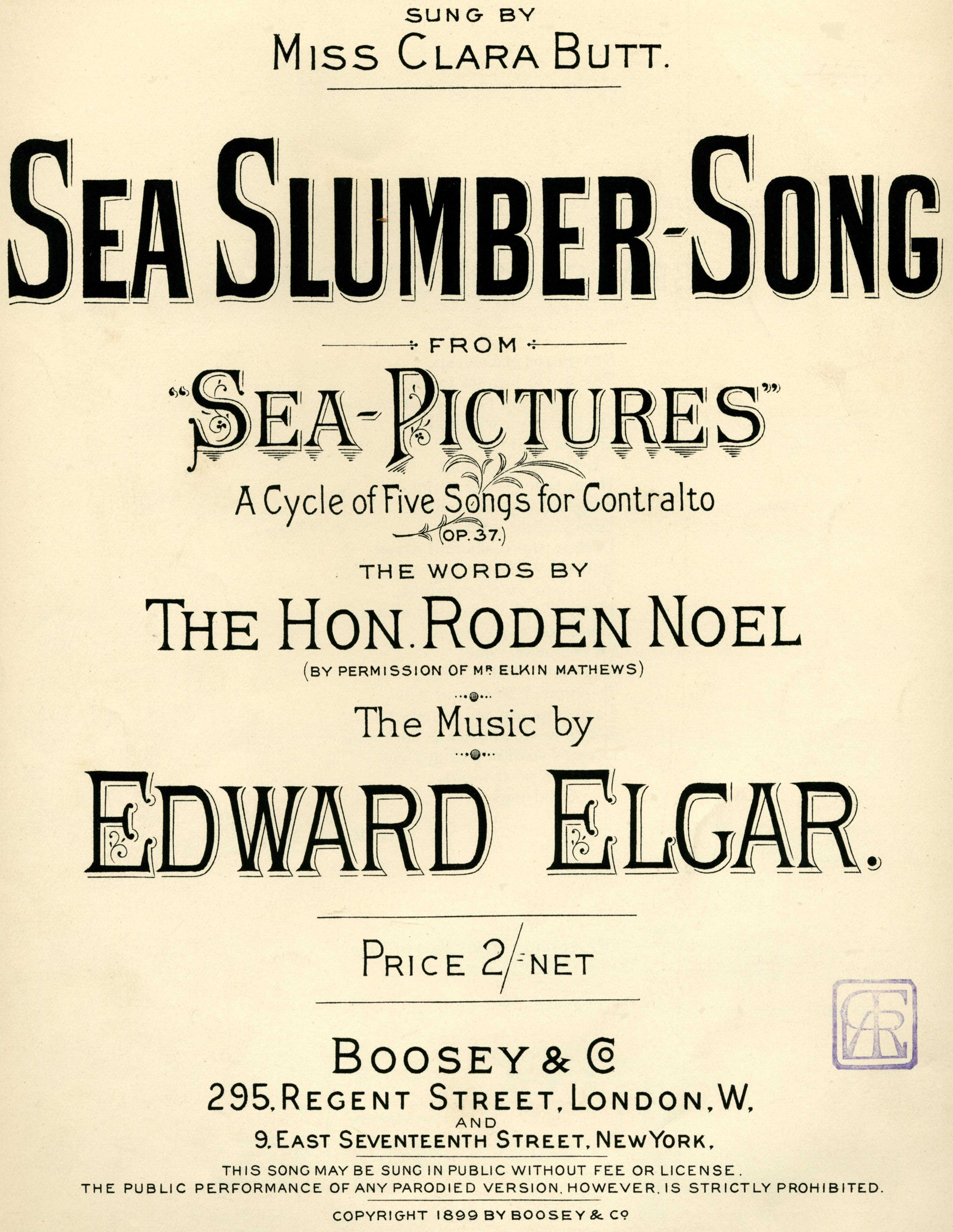 Cover of the Song "Sea Slumber Song"